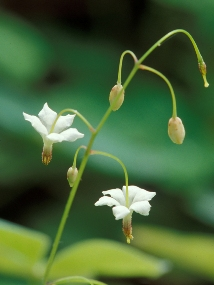 Vancouveria planipetala, Redwood National Park, California, USA